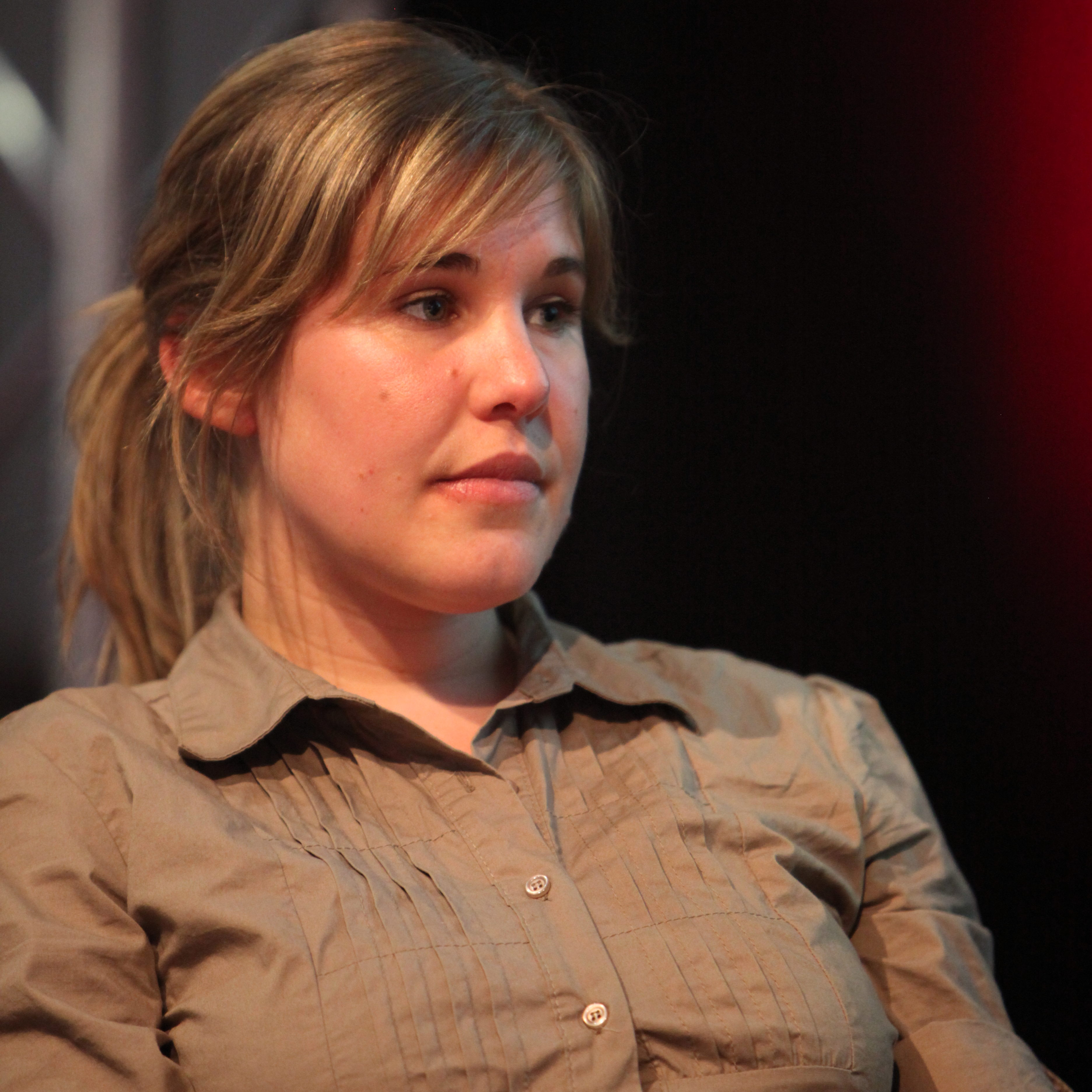 Karin Joachim at the Salon du Livre 2011 in Geneva The making of this document was supported by Wikimedia CH. (Submit your project!) For all the files concerned, please see the category Supported by Wikimedia CH.